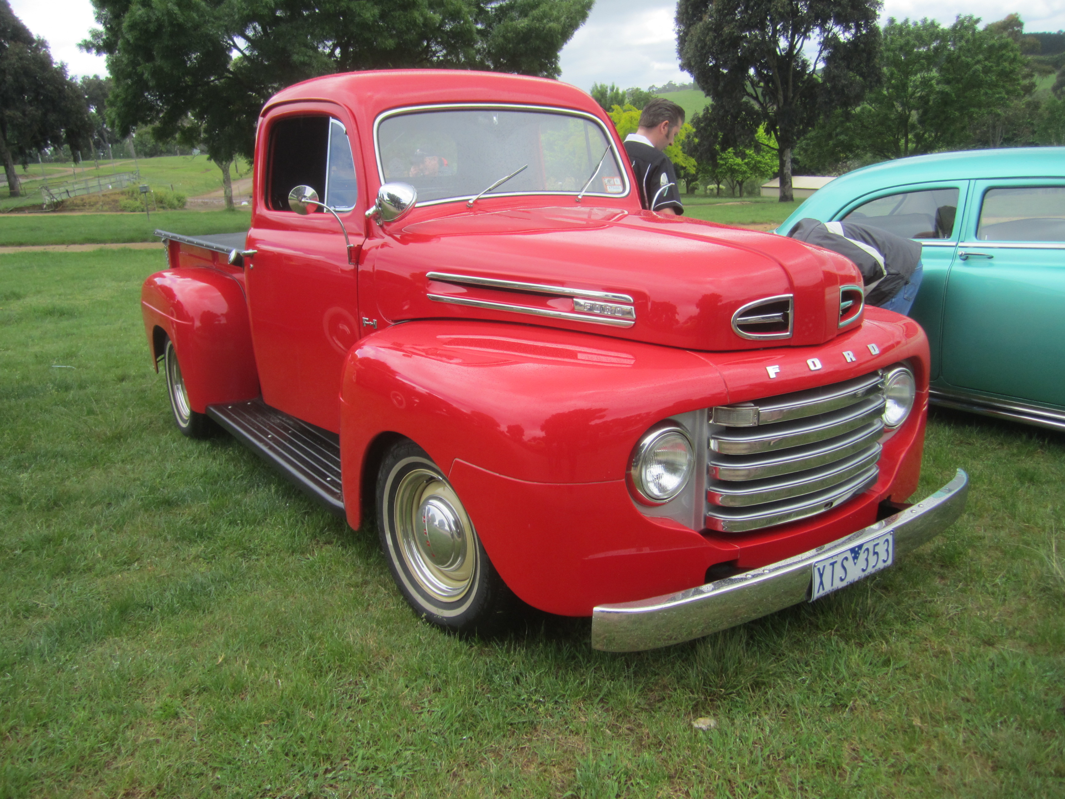 Predecessor to the F100; the F-1, built from 1948-1950 running mainly 239 Flathead V8s